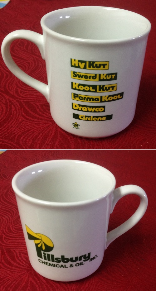 The company's pottery with the names of its leading products.